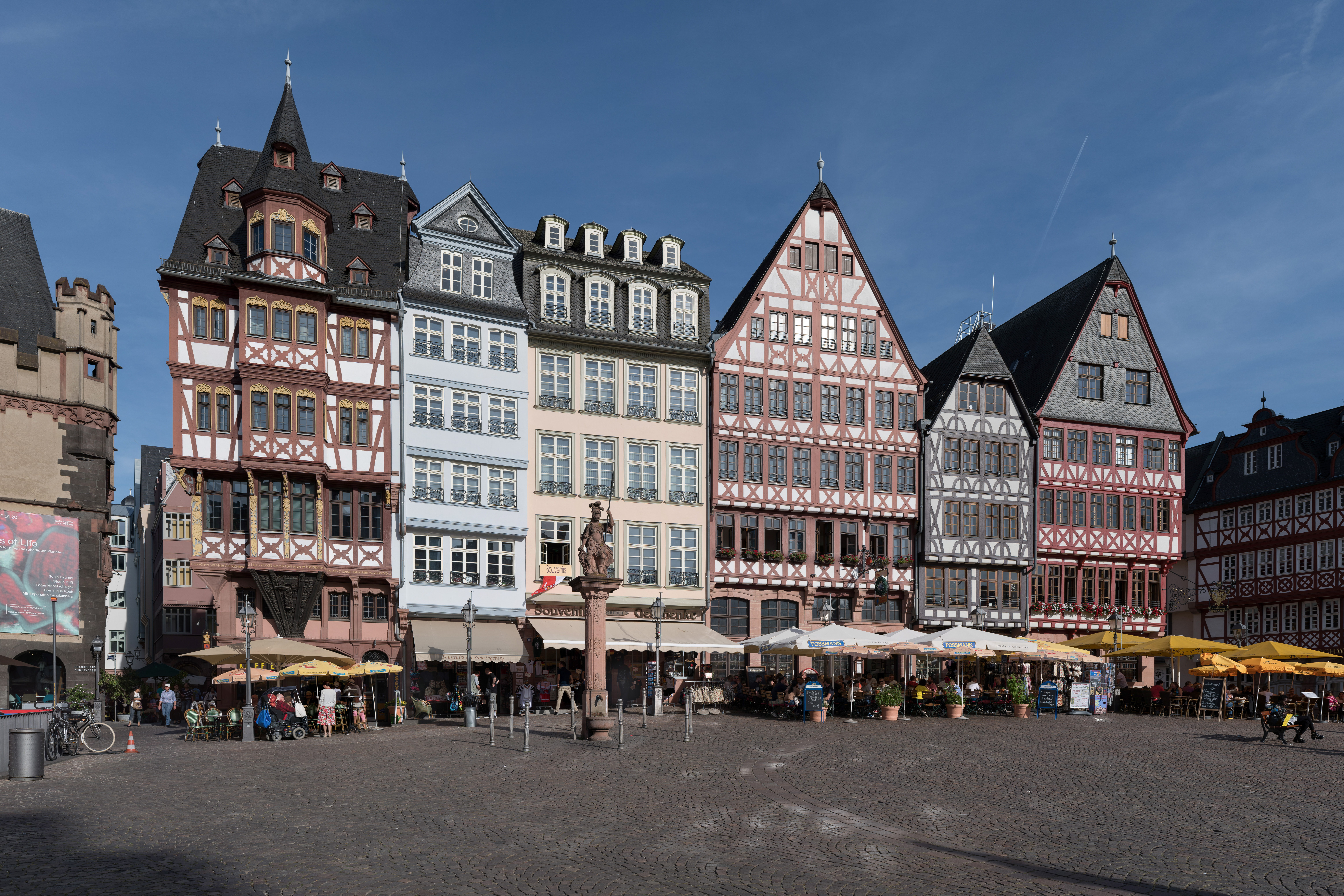 A west view of the building row (Ostzeile) at Samstagsberg, a part of Römerberg, Frankfurt am Main